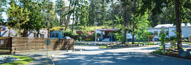 Aspengrove School in Nanaimo, British Columbia a Jrk-Grade 12 IB World School